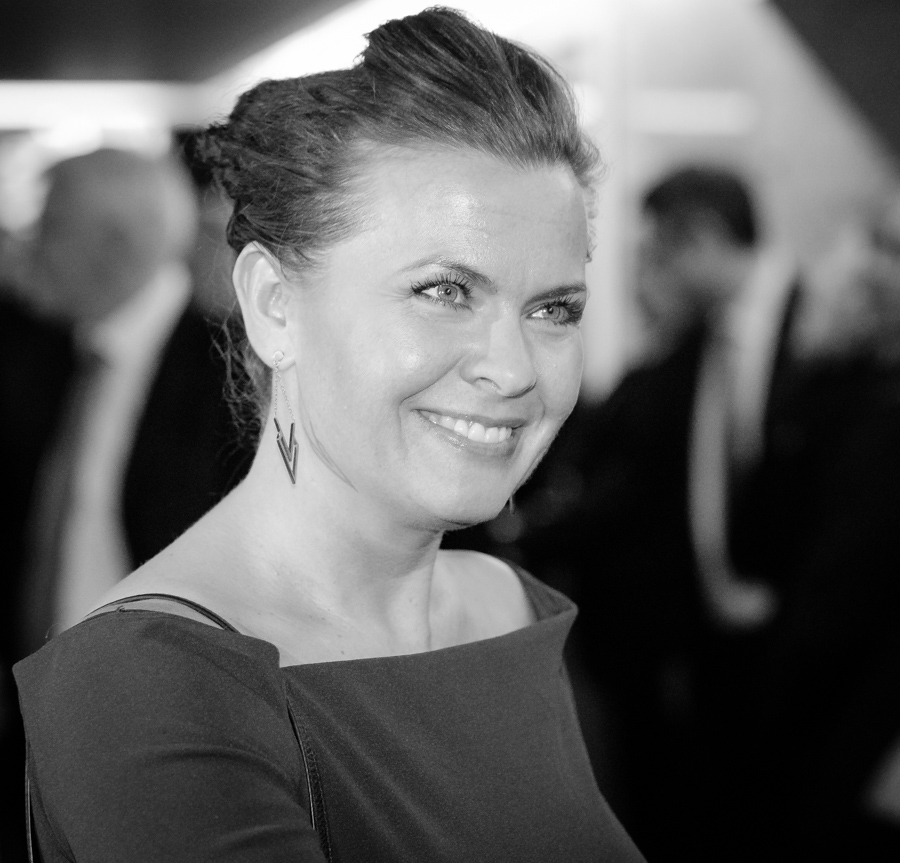 A guest (Jorunn Lossius, KrF) at Governor Øystein Olsen's annual address in February 2018